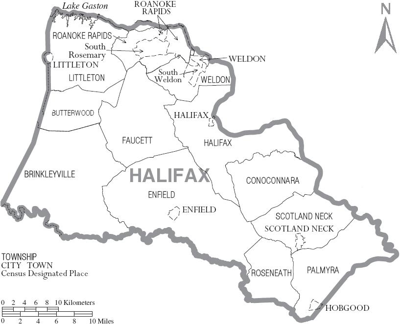 Map of Halifax County, North Carolina, United States with township and municipal boundaries